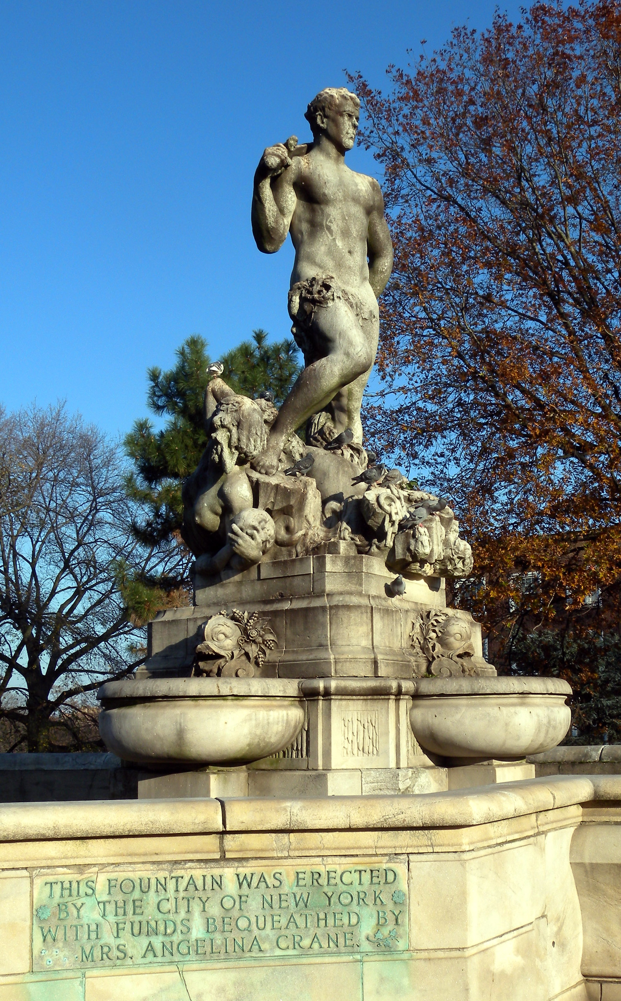 Looking east at the 1919 statue of Civic Virtue, southwest of Boro Hall, on a sunny afternoon. Frederick William MacMonnies sculptor, Piccirilli Brothers carvers, Edward Raffo, model